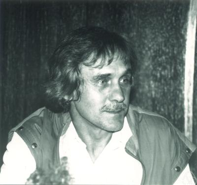 Mathematician Georg J. Rieger in Oberwolfach, 1986.